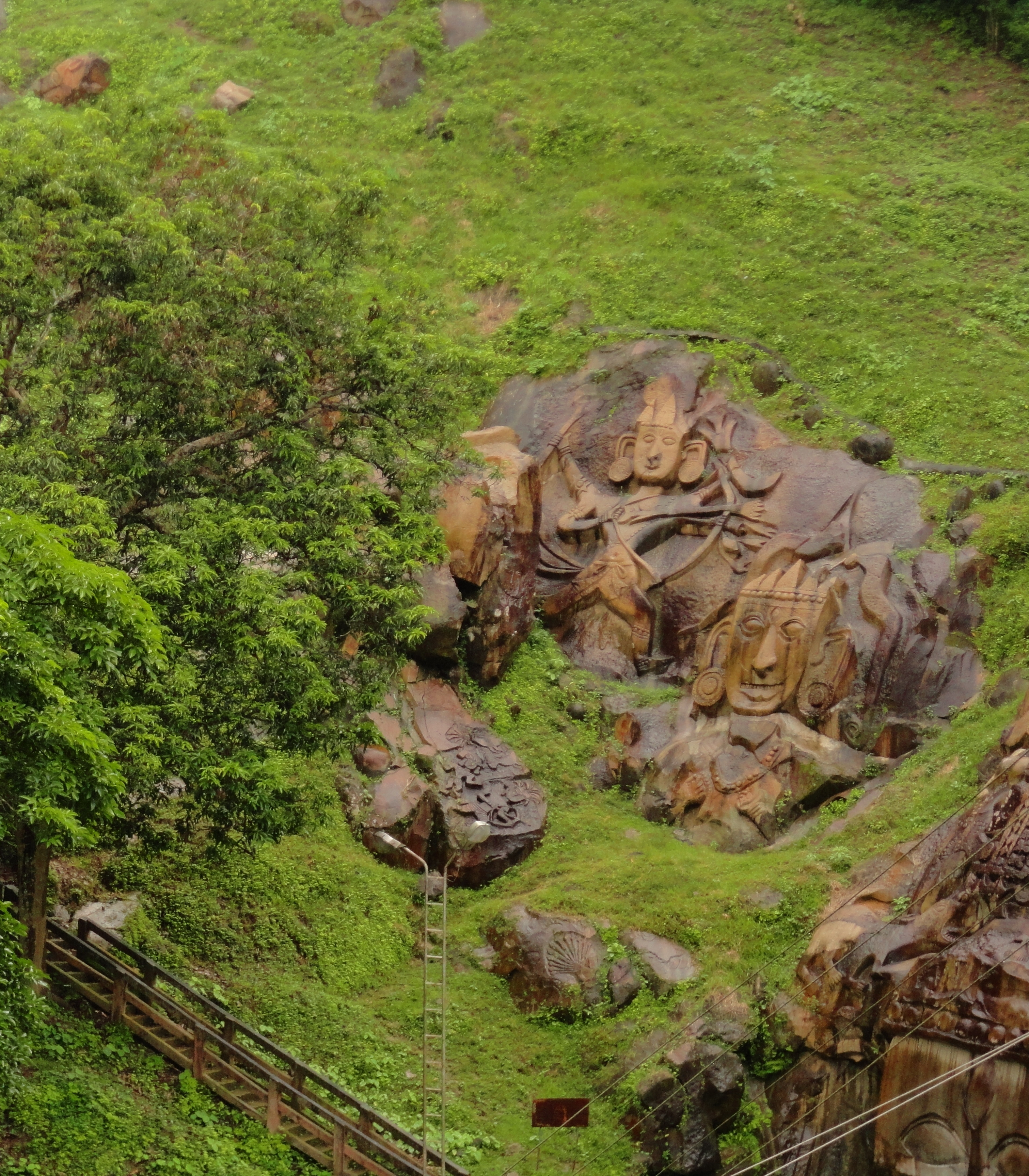 Unakoti hill, Unakoti Tripura District, Kailashahar Subdivision, Tripura, India